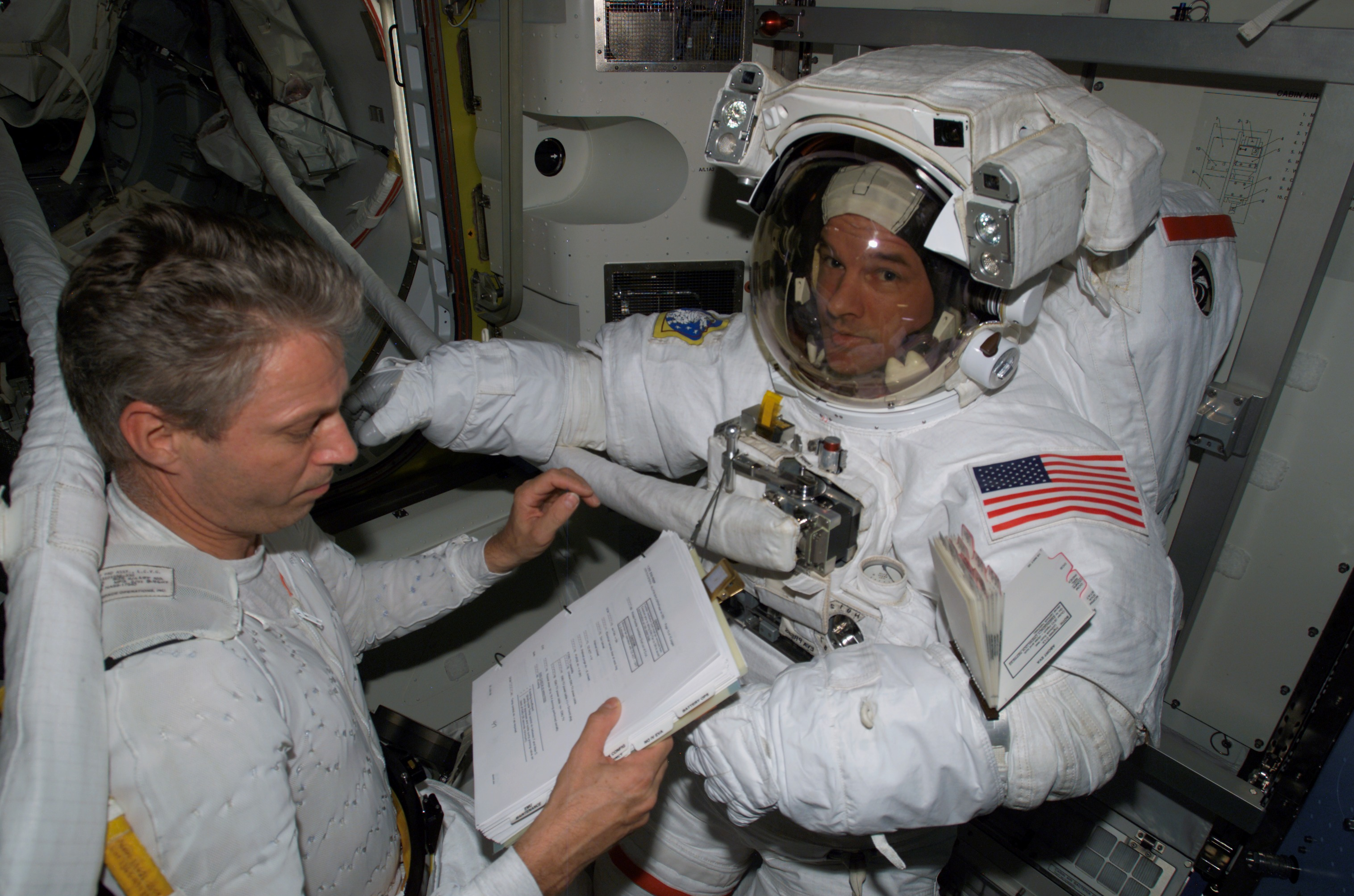 European Space Agency (ESA) astronaut Thomas Reiter (left), Expedition 13 flight engineer, looks over a procedures checklist as he assists astronaut Jeffrey N. Williams, NASA space station science officer and flight engineer, with his Extravehicular Mobility Unit (EMU) space suit in the Quest Airlock of the International Space Station. The crew is preparing for a session of extravehicular activity (EVA) scheduled for Thursday, Aug. 3, 2006. Reiter is attired in a liquid cooling and ventilation garment that complements the EMU space suit.